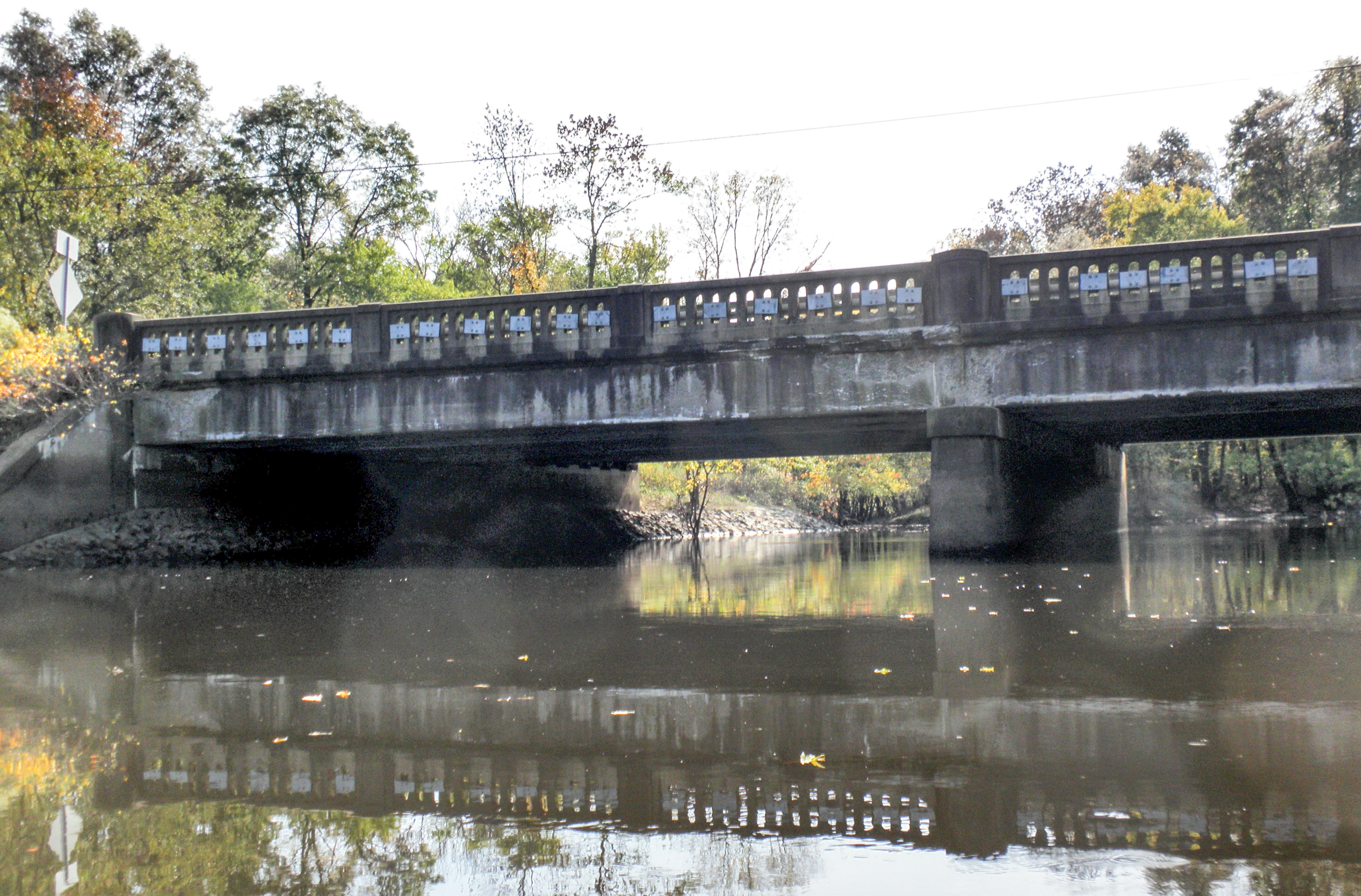 Pine Brook (NJ Route 159) Westbound Bridge over the Passaic River, Montville - Fairfield Township, New Jersey (looking southwest by kayak)